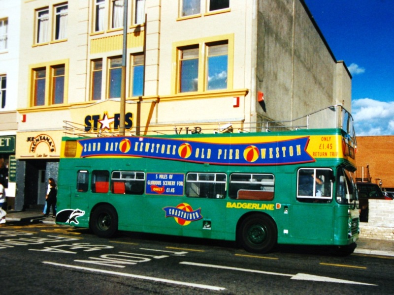 Open top dual-door Bristol VRT LEU 263P picks up at the Grand Pier in Weston-super-Mare, Somerset, England. It is Badgerline's number 8622 and carries a special green livery with yellow route branding for the sea front service.